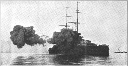 The Austro-Hungarian battleship Prinz Eugen firing a broadside